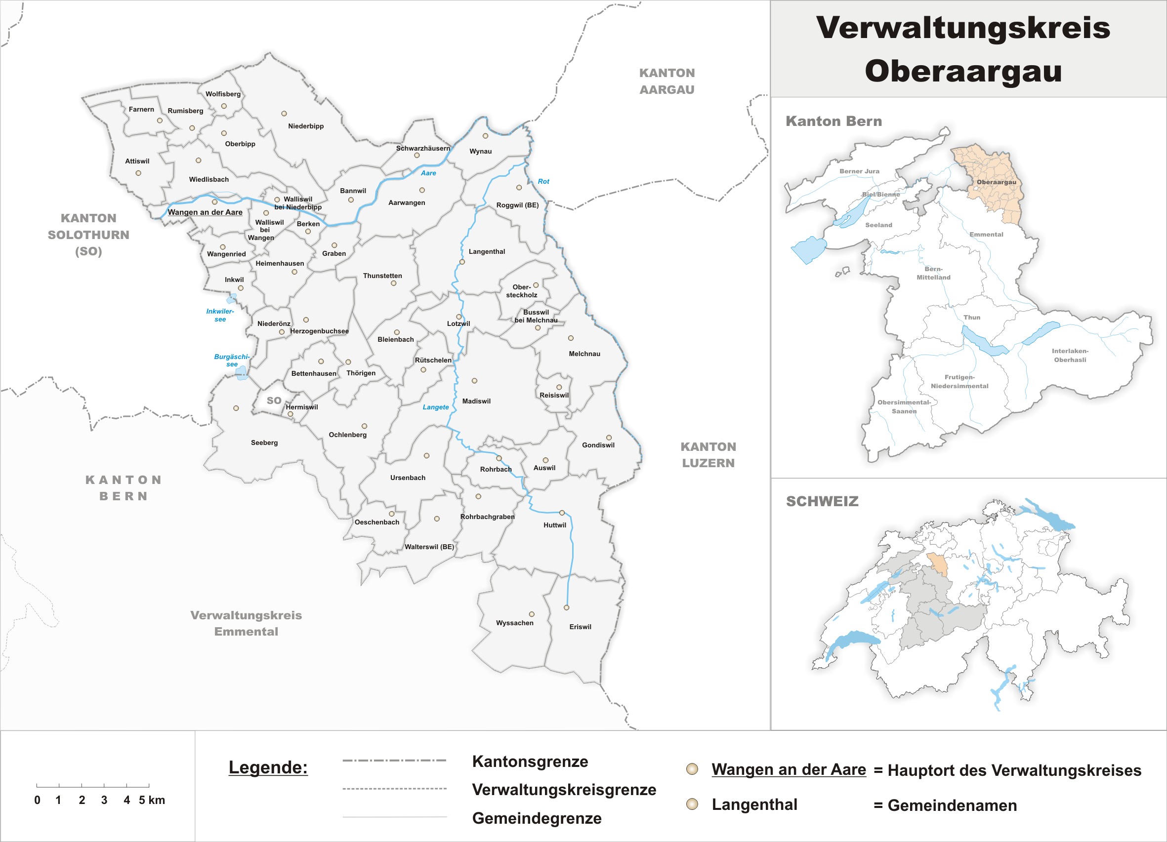 Municipalities in the district of Oberaargau